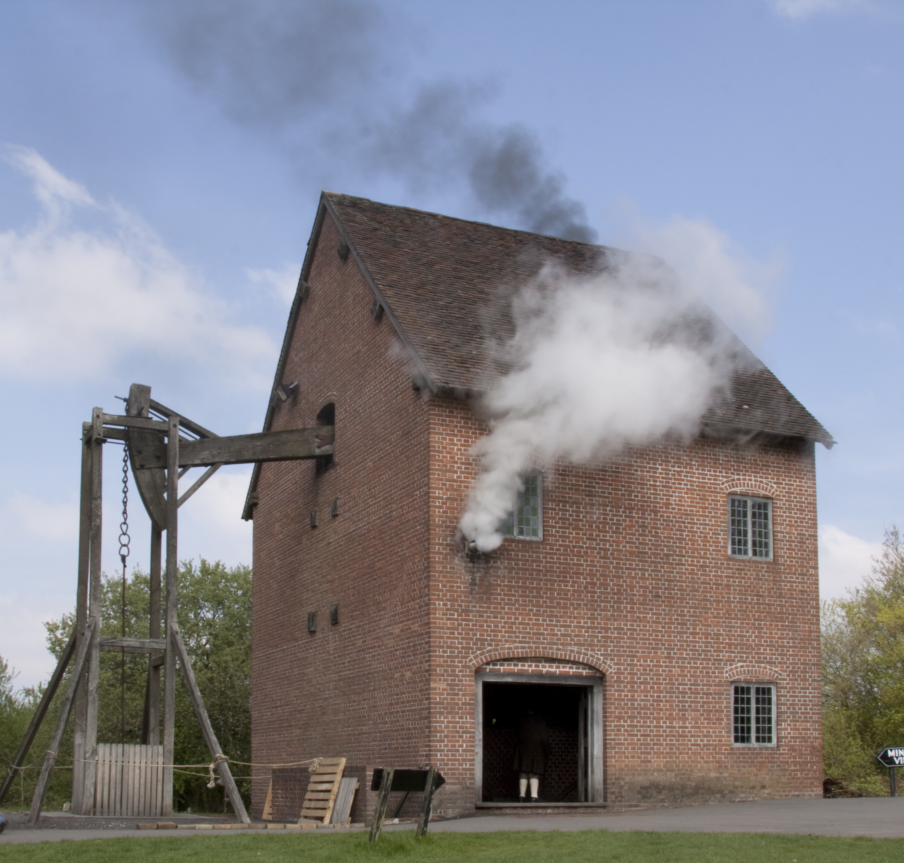 A full scale working replica of that 1712 engine built by Thomas Newcomen for pumping water from the mines on the estates of Lord Dudley